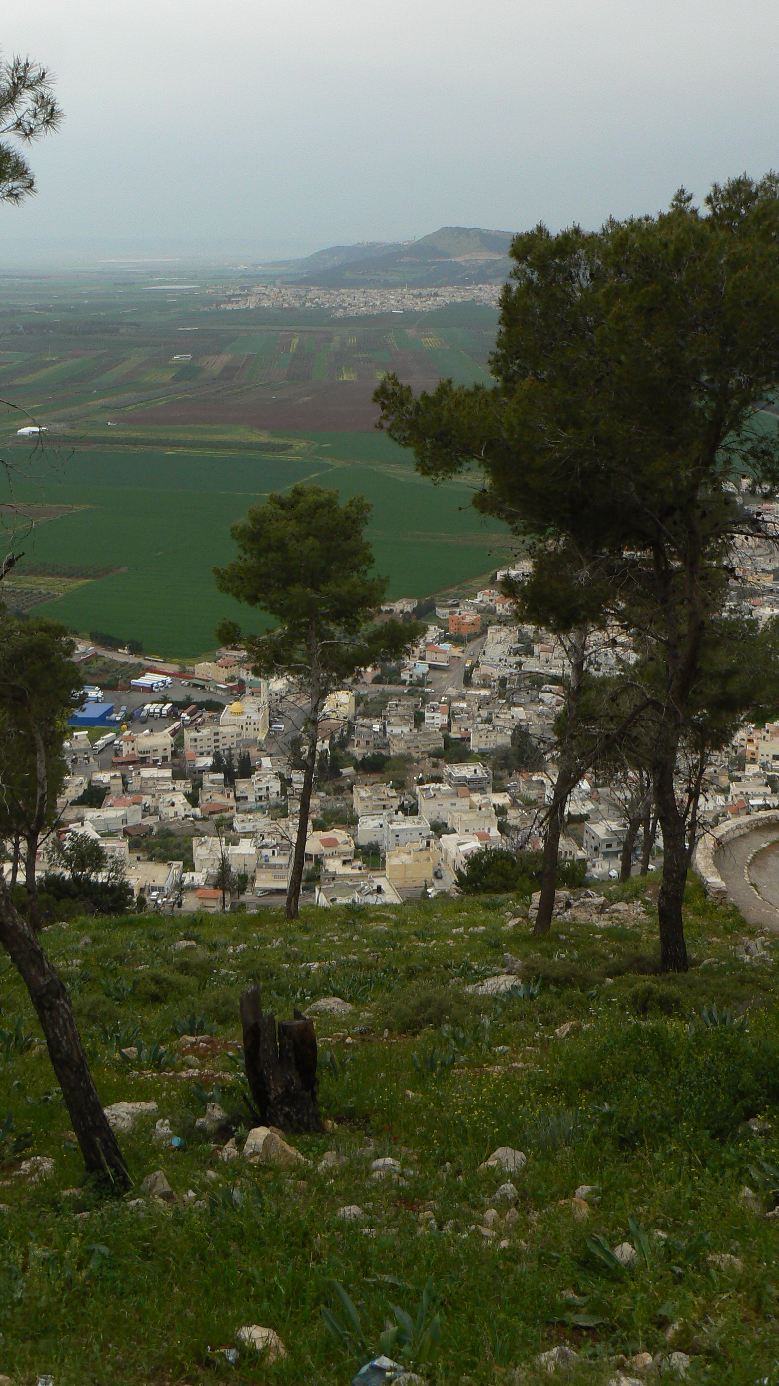 Daburiye as seen from Mt. Tavor, Israel